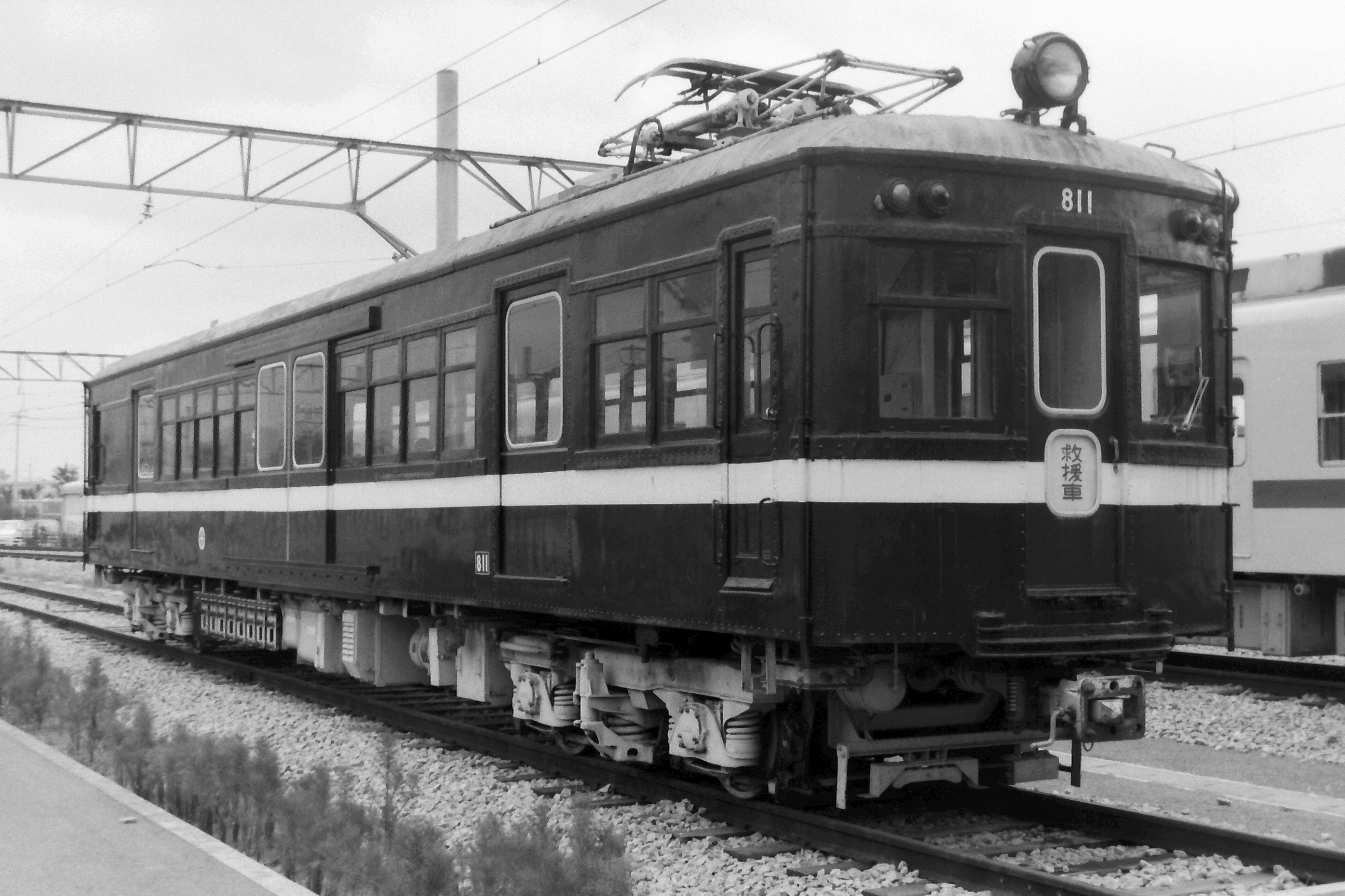 Nishitetsu 811 at Chikushi depot